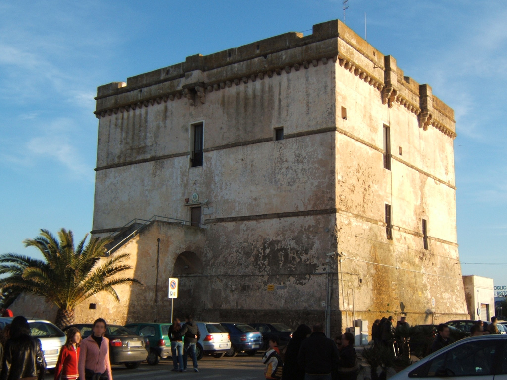 Questa è proprio la torre dentro porto cesareo:Torre Cesarea.. dal cielo si vede così Object location 40° 15′ 25.0″ N, 17° 53′ 30.0″ E This and other images at their locations on: Google Maps - Google Earth - OpenStreetMap - Proximityrama(Info)